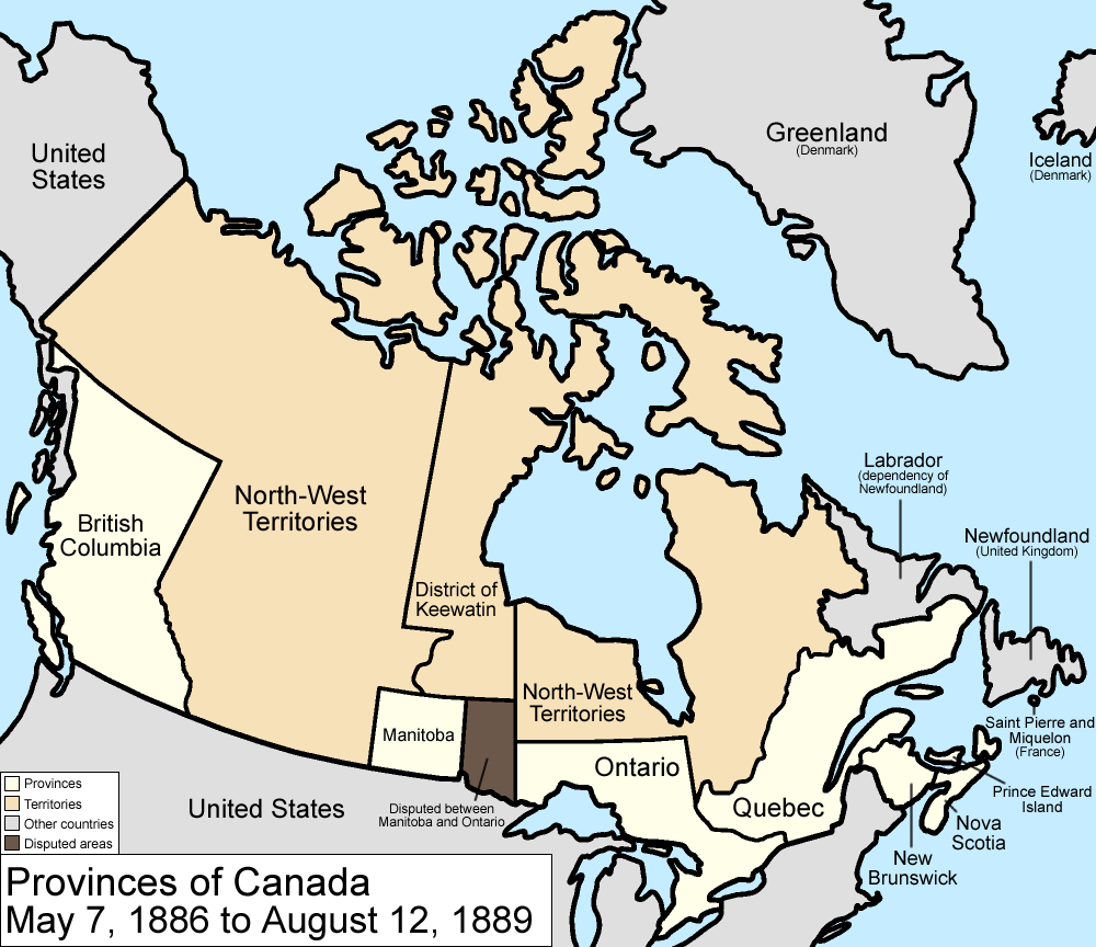 Map of the provinces and territories of Canada as they were between 1886 and 1889. In 1886, the District of Keewatin's southwestern border was adjusted. In 1889, the disputed area between Manitoba and Ontario was generally granted to Ontario, with some going to the District of Keewatin, and Manitoba getting none. Made by User:Golbez.